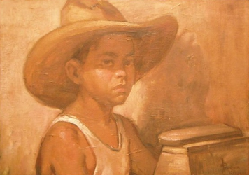 Limpia Botas ('Shoeshiner') by Pablo Amorsolo